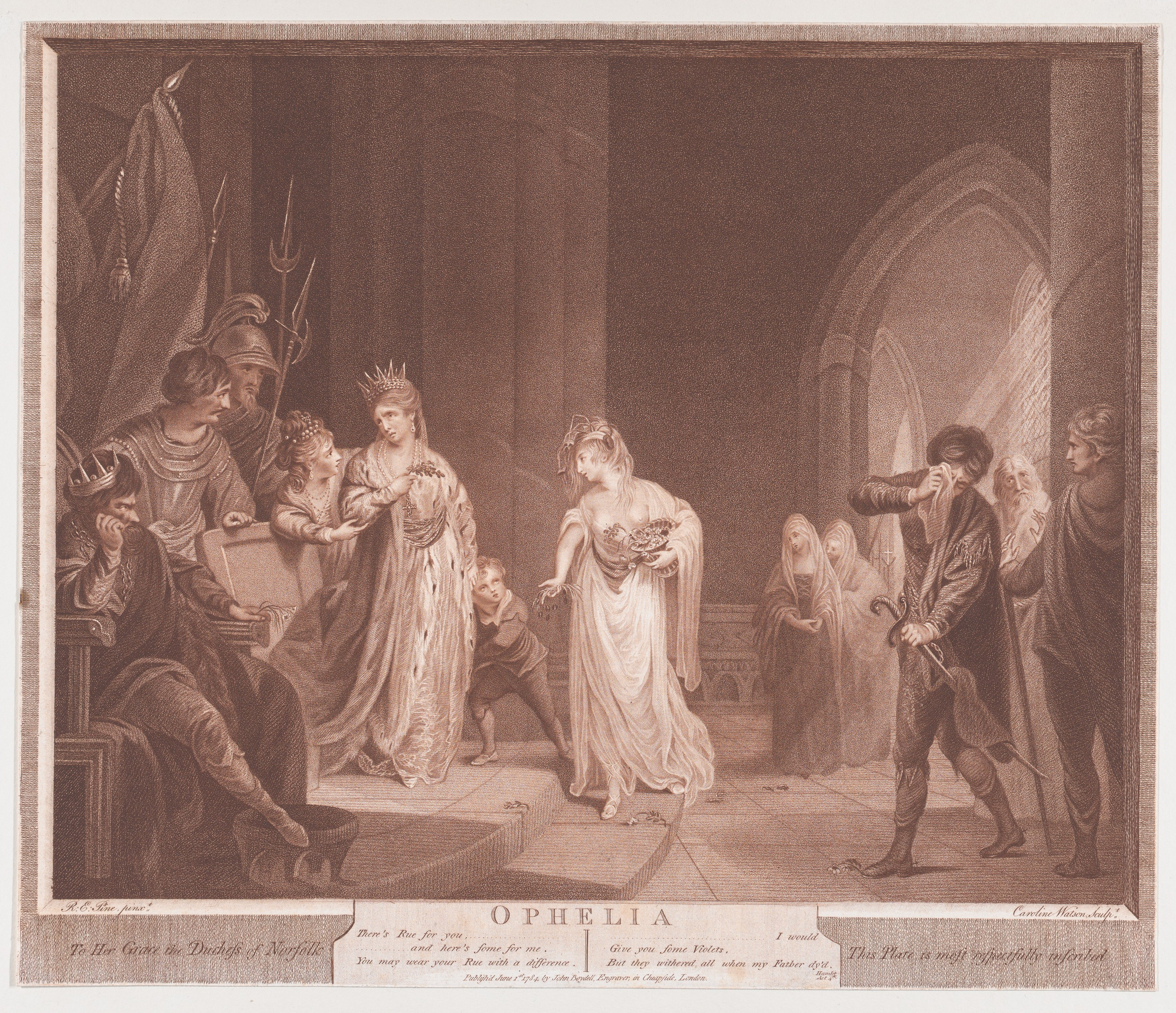 Print; Prints